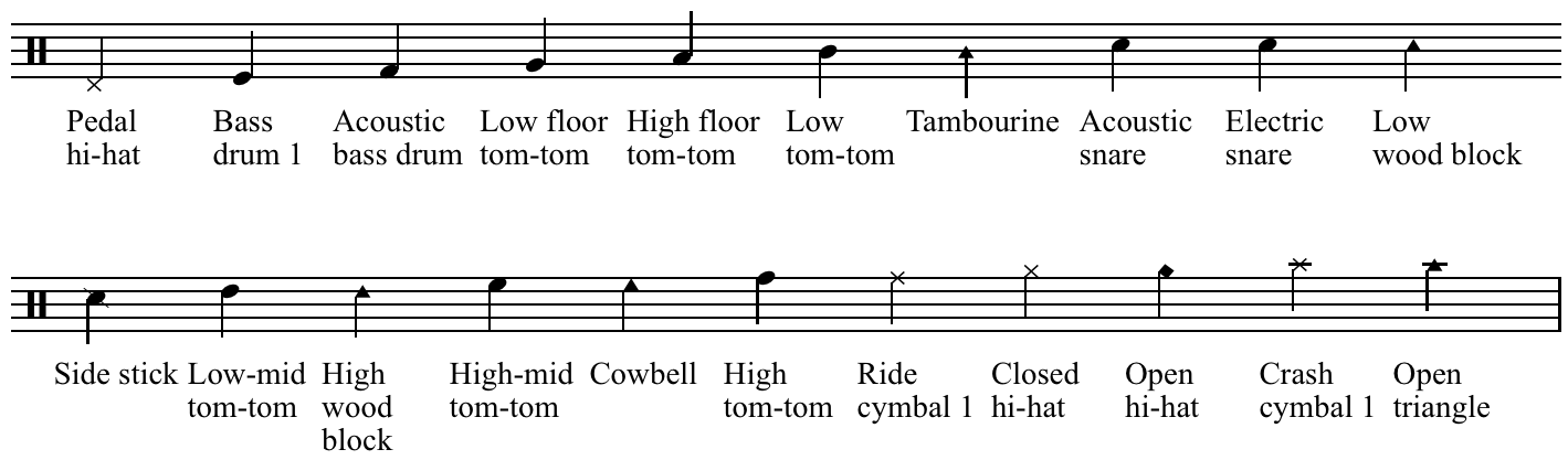 Sibelius drum legend. Created by Hyacinth (talk) 05:30, 7 December 2010 using Sibelius 5.